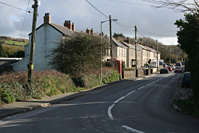 Houses at Penhallick On the road to Four Lanes.